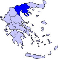 Locator map for 'Centeral Macedonia' periphery. Map of Greek periphery